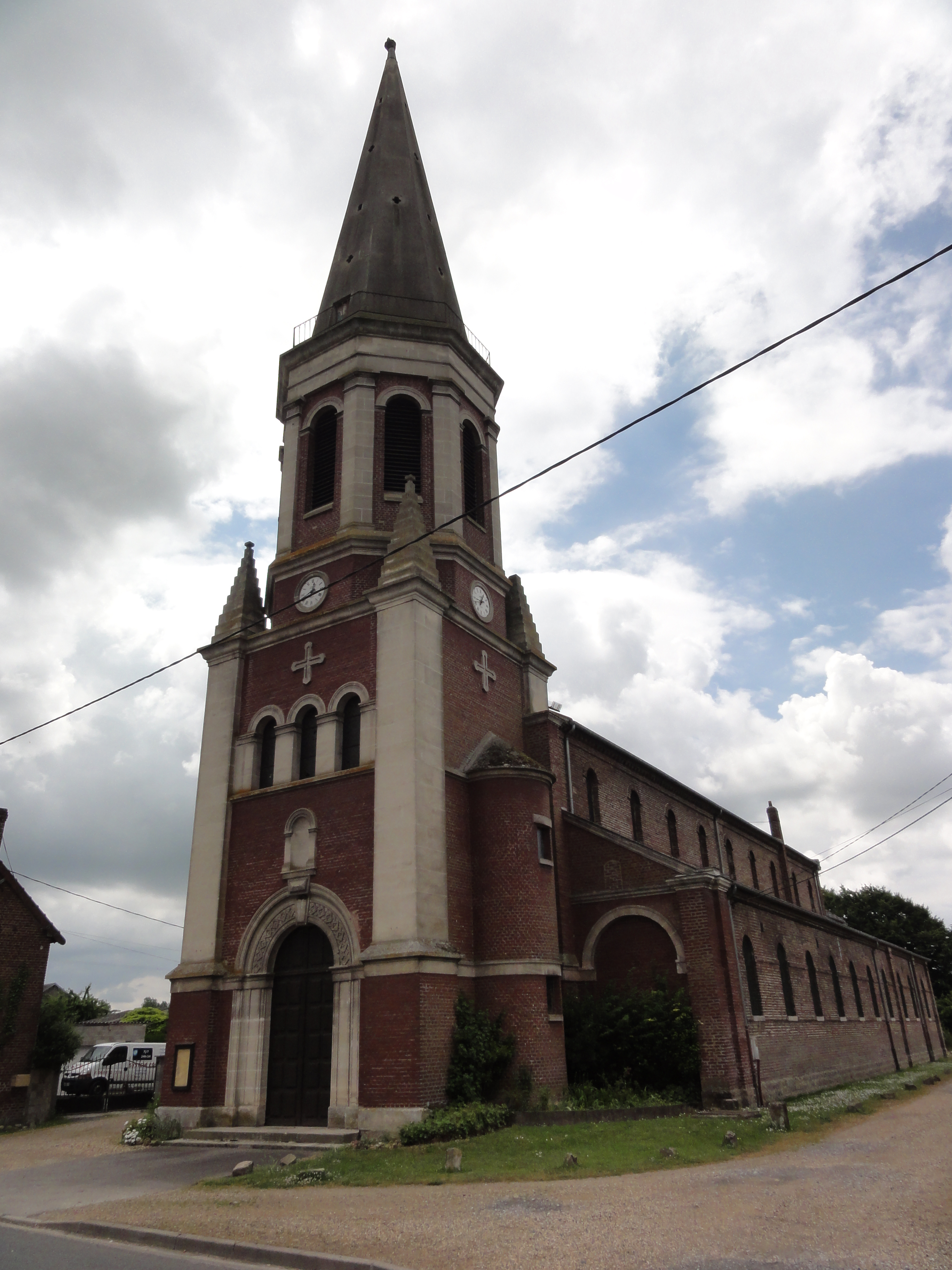 Manicamp (Aisne) église